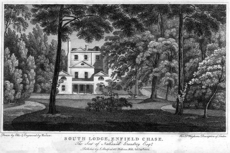 South Lodge, Enfield Chase The seat of Nathaniel Grundrey Esq. Published by I. Stratford, 112 Holborn Hill, November 19th 1808. Drawn by Ellis and engraved by Warren. For Dr Hughson's Description of London